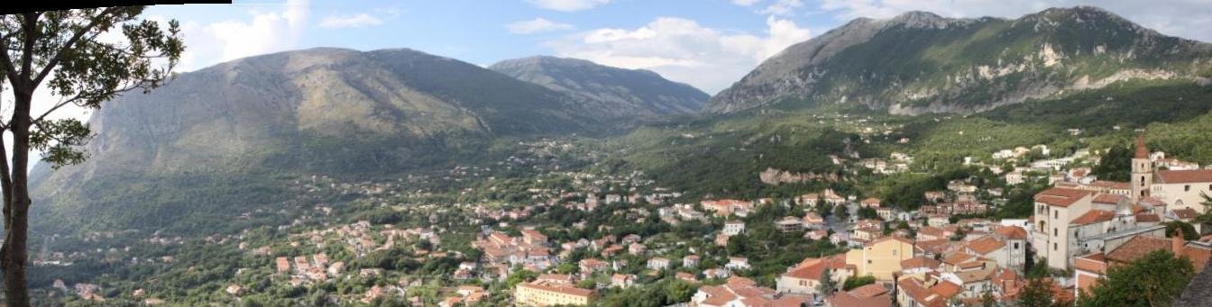 Maratea's valley.